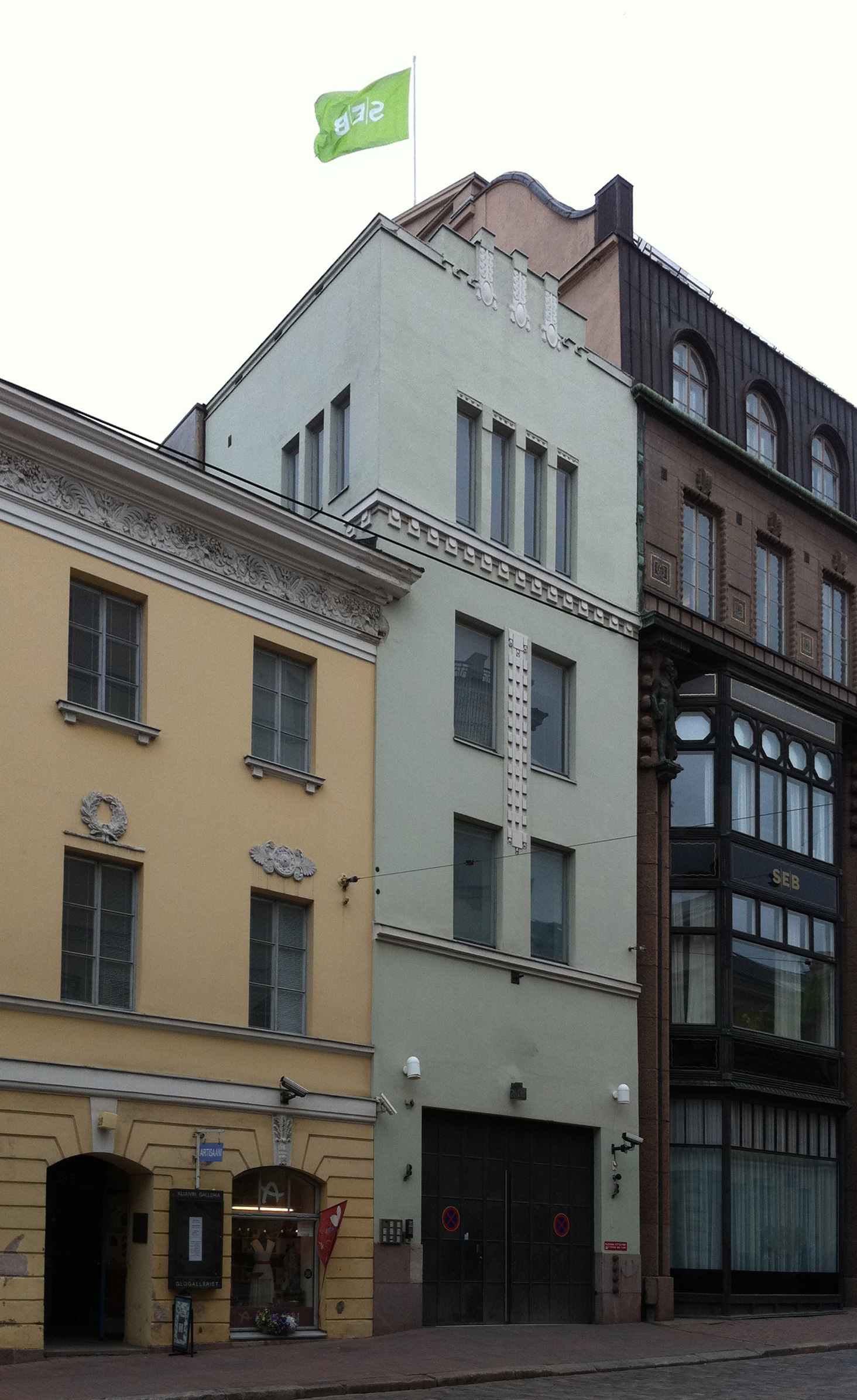 Kluuvi gallery, Unioninkatu 28b, Helsinki, built 1816.